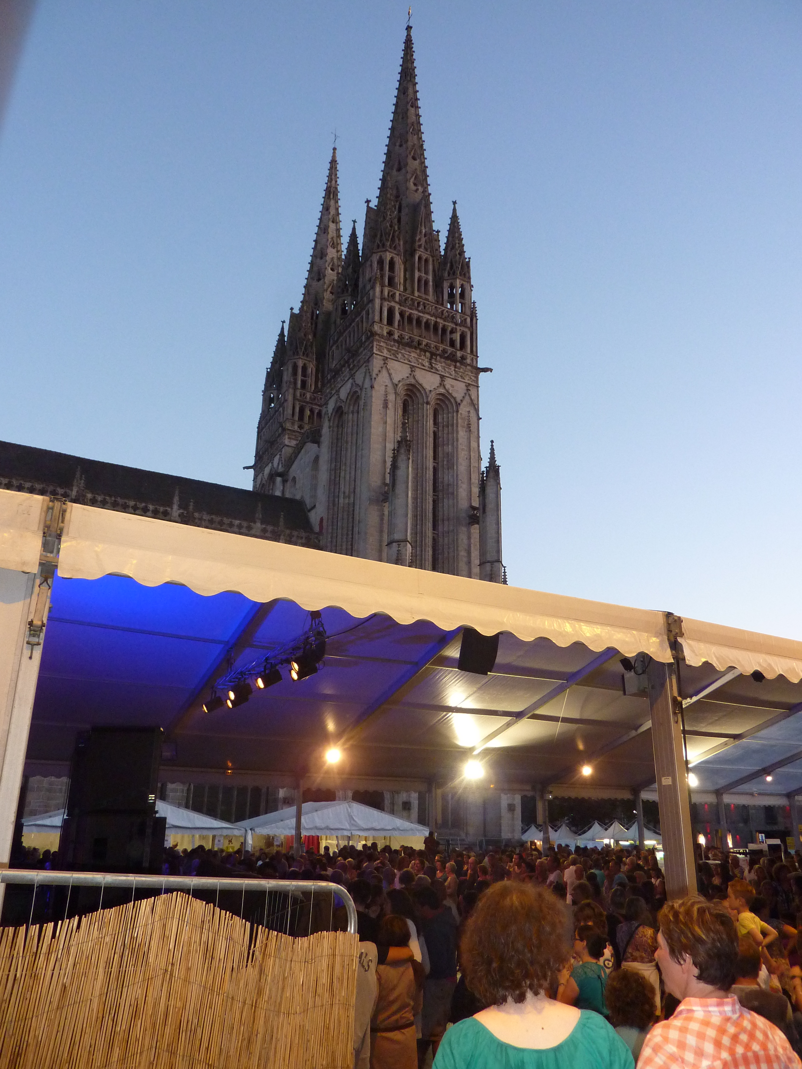 Fest Noz during the Festival de Cornouaille 2014 in Quimper.